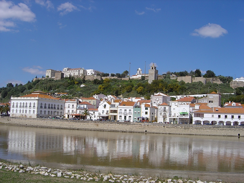 River, City and Castle, Alcácer do Sal, Alentejo, Portugal